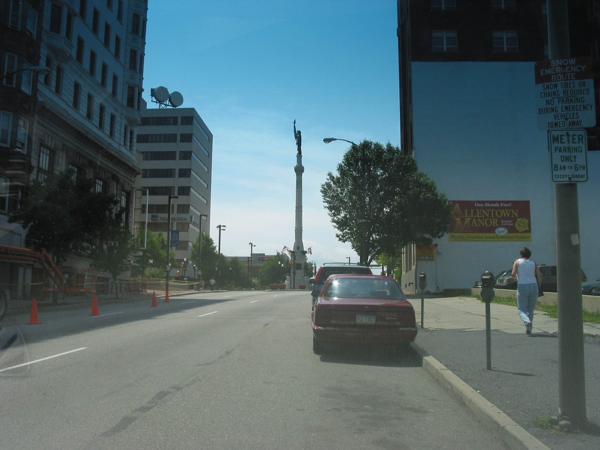 A view of southbound Pennsylvania Route 145 as 7th Street in downtown Allentown